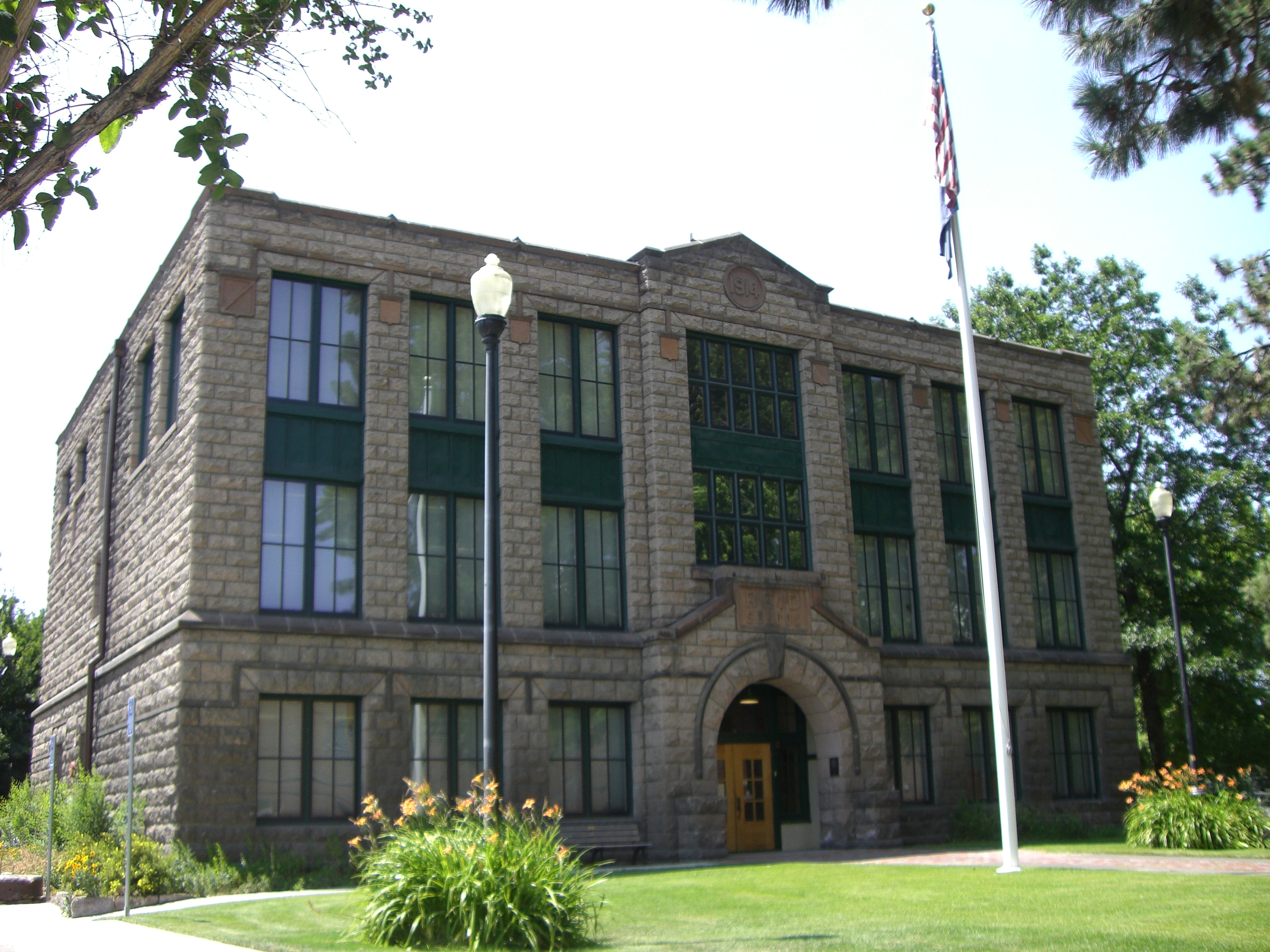 The historic Reid School in Bend, Oregon, United States, is listed on the US National Register of Historic Places (NRHP).NRHP reference number 79002053